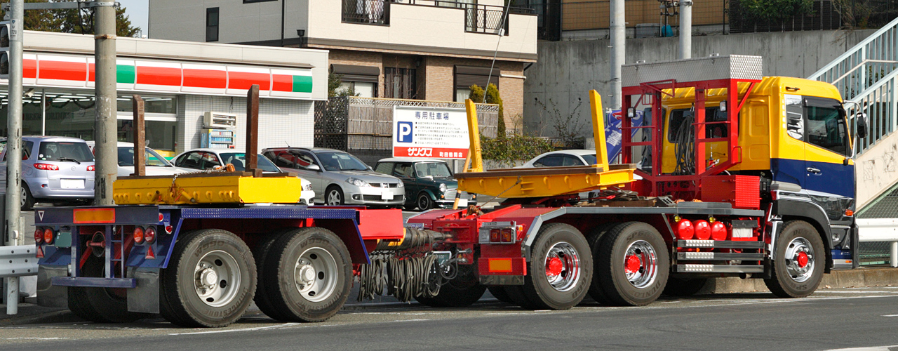 Nissan Diesel Quon pole trailer